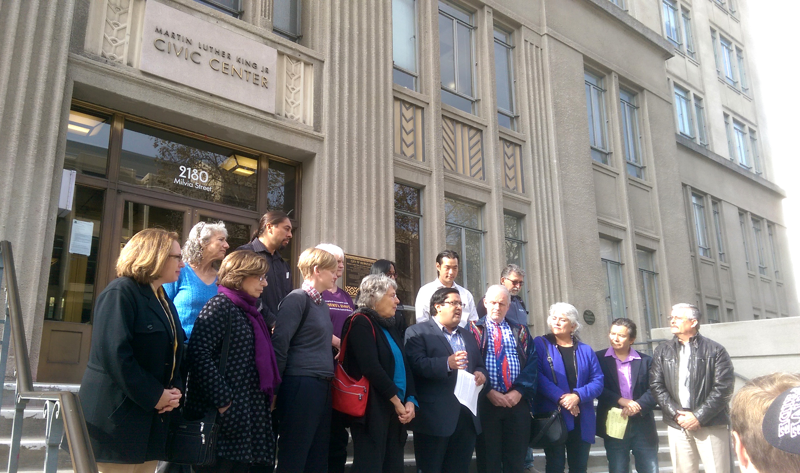 Berkeley Mayor Jesse Arreguin speaks on the steps of City Hall, reaffirming Berkeley's status as a sanctuary city on Tuesday, November 22, 2016. He is surrounded by elected officials and others.